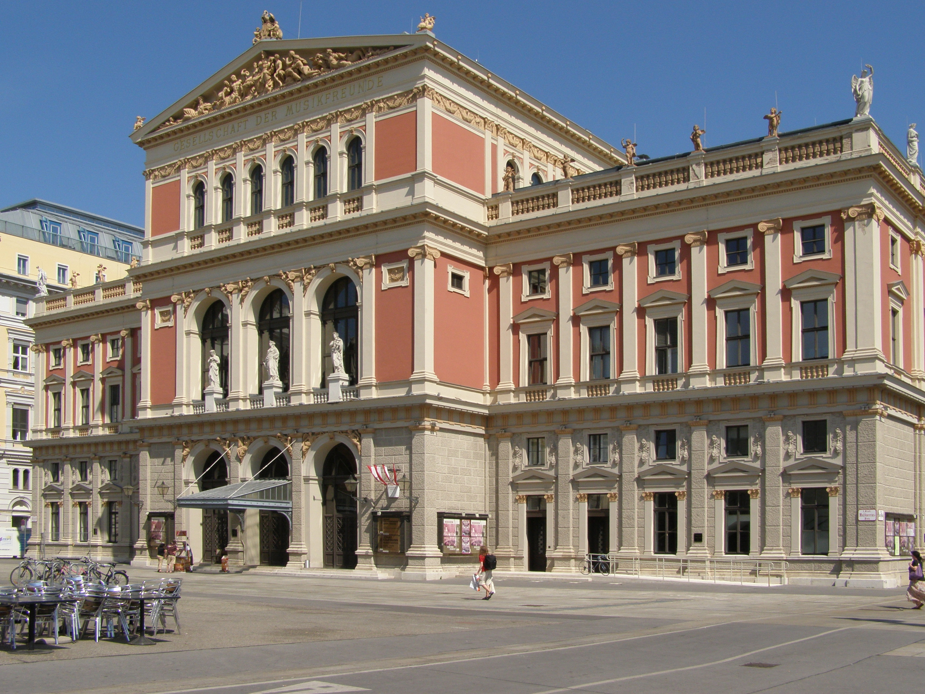 Musikverein